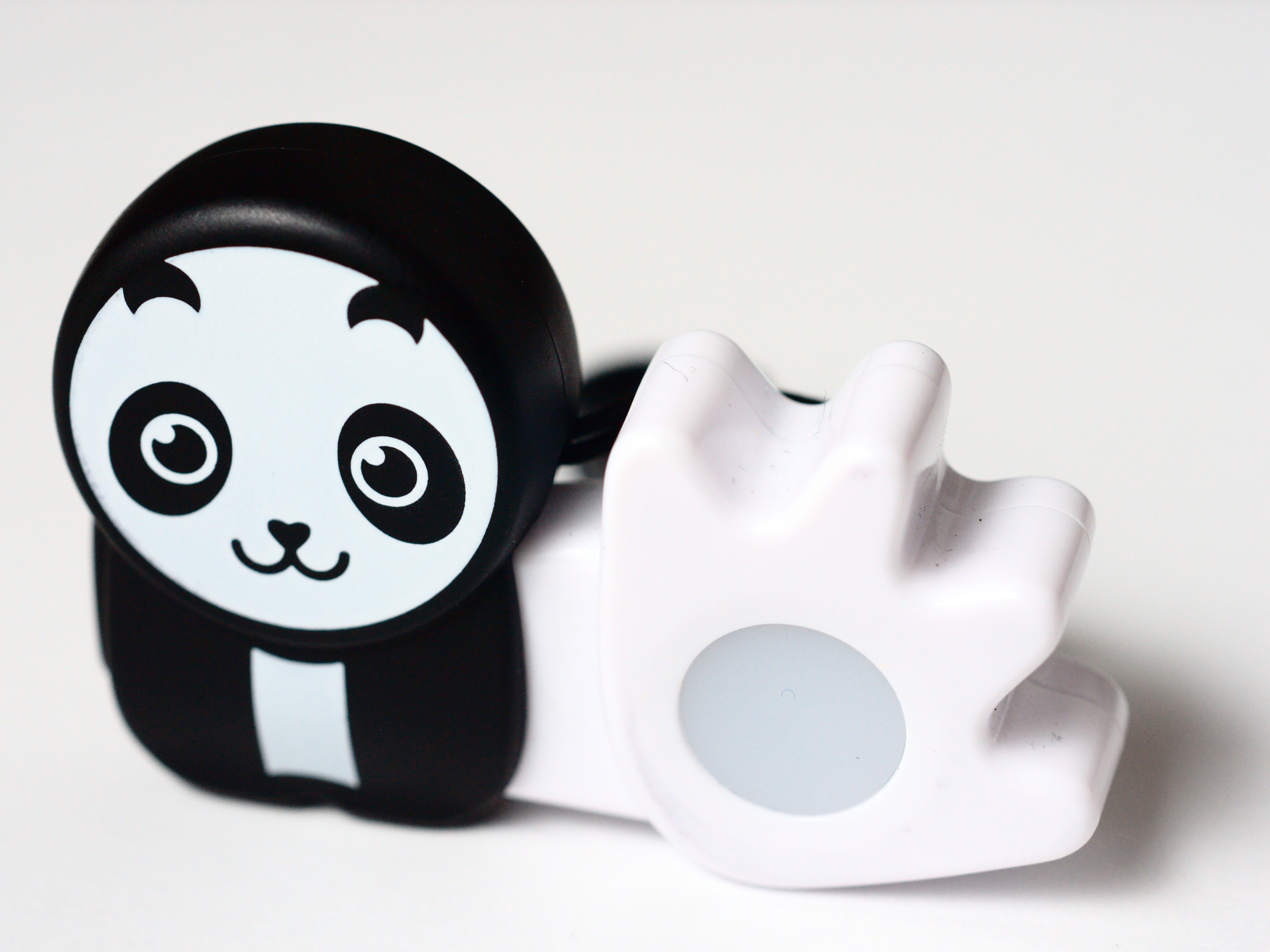 A Poken